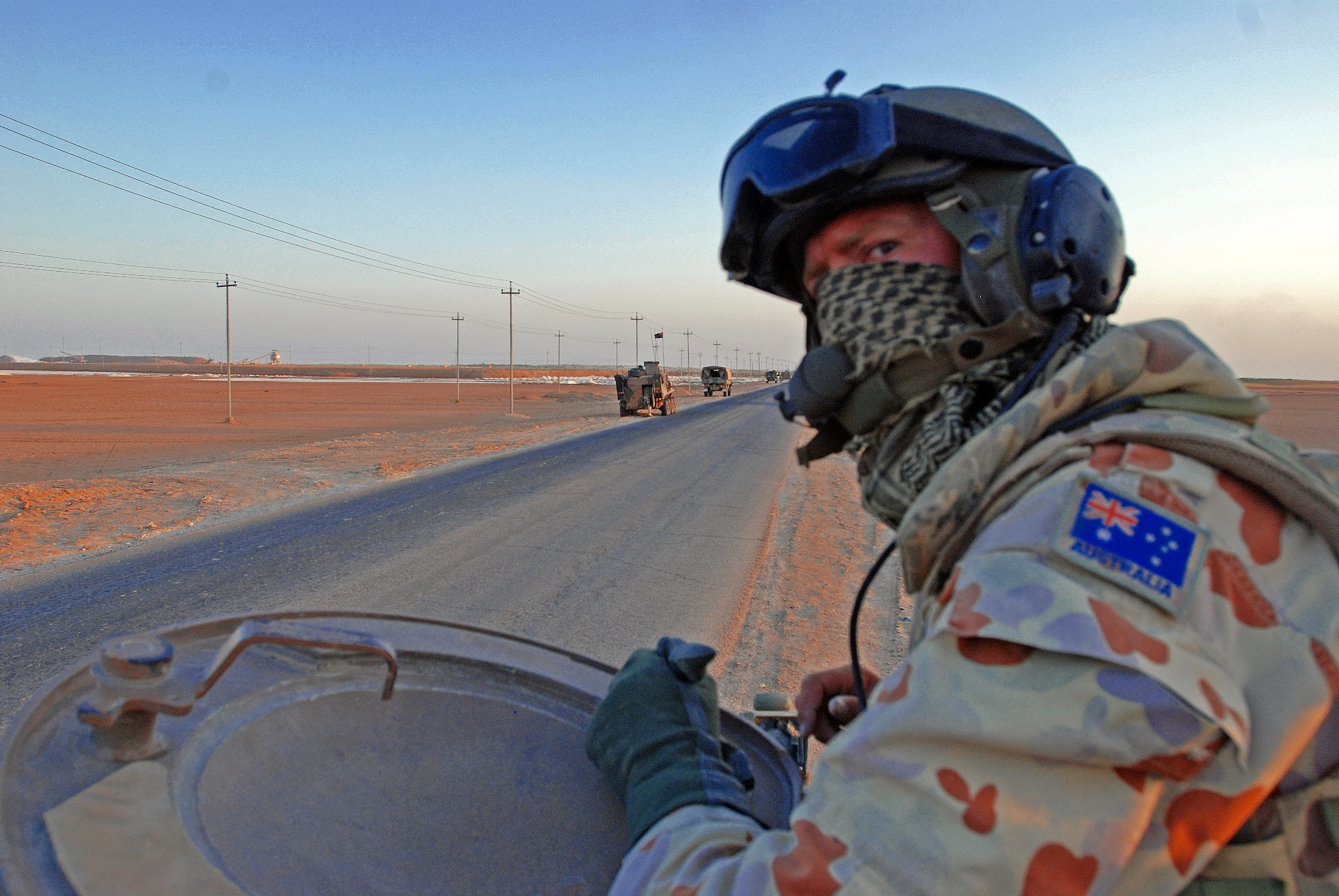 An Australian cavalry scout cautiously peers down the road during a security halt in As Samawat, Iraq.